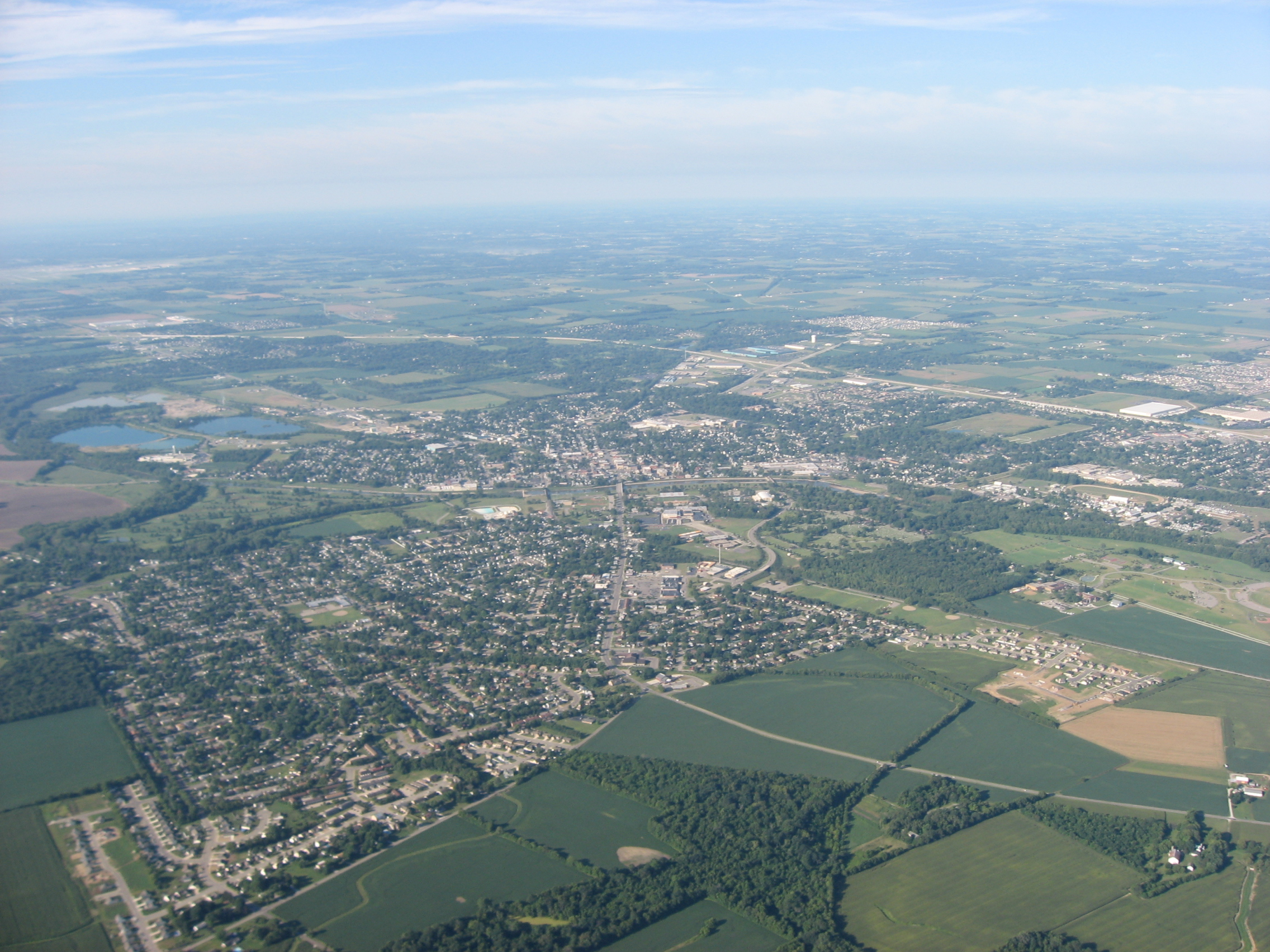 Aerial view of Troy, a city in Miami County, Ohio, United States. The Great Miami River is partially visible in the center of the picture, dividing the city into eastern and western halves. Picture taken from a Diamond Eclipse light airplane at an altitude of 4,500 feet MSL and a bearing of approximately 215º.